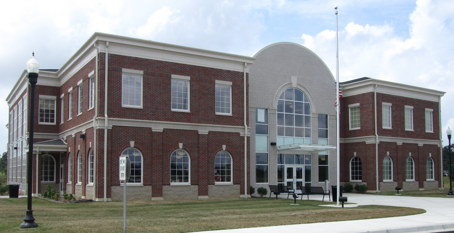 wku-o